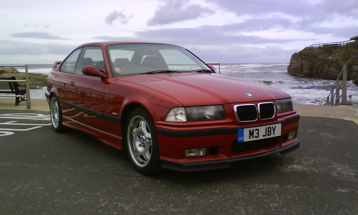 My second M3 Imola Individual No. 42/50